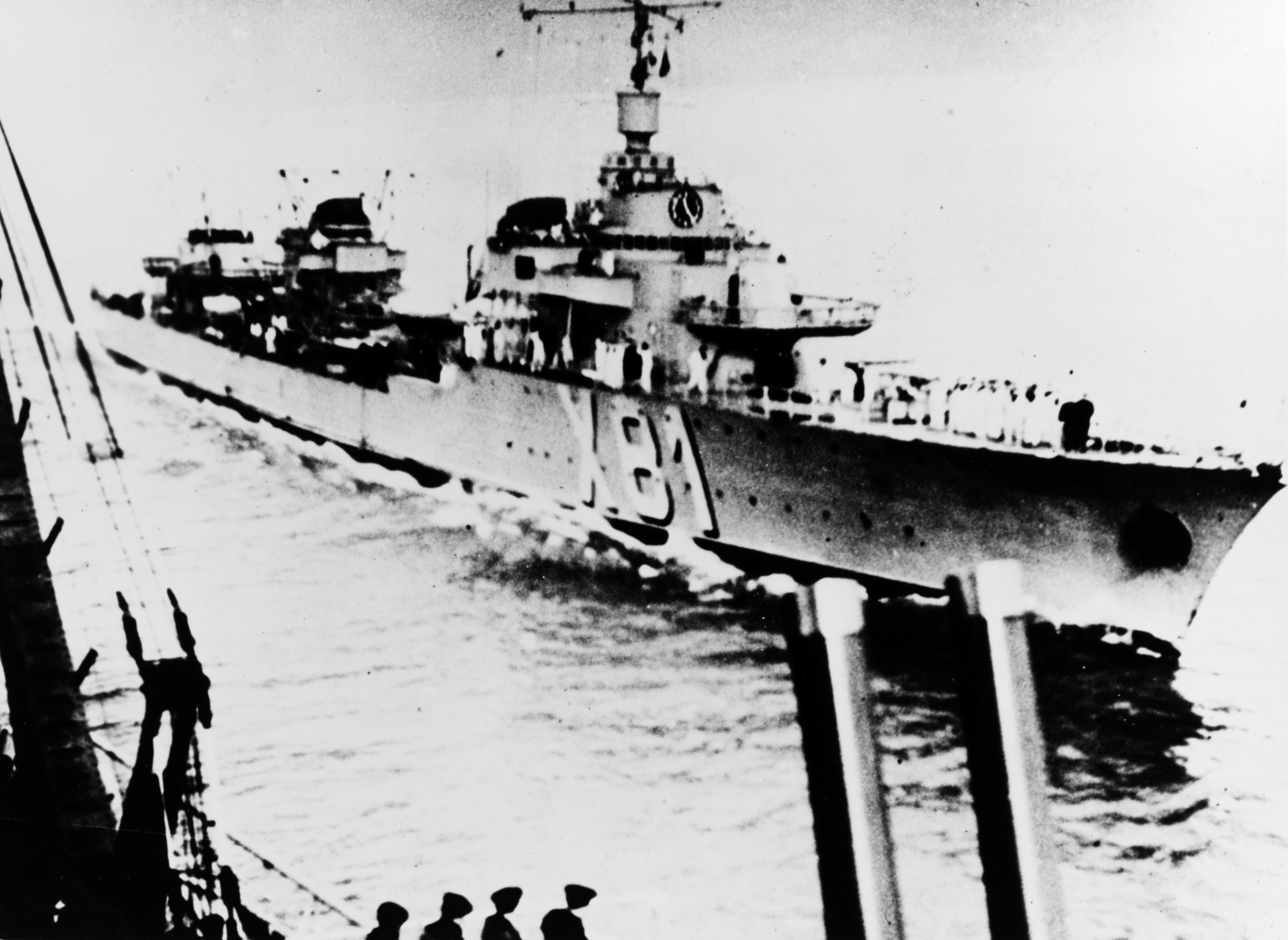 The French destroyer L'Indomptable at sea